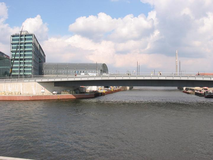 „Berlin-Spandauer Schifffahrtskanal“, start of the canal at river Spree, view from Spreegartenpark to part of the new Berlin Hauptbahnhof — Lehrter Bahnhof (opening in May 2006)